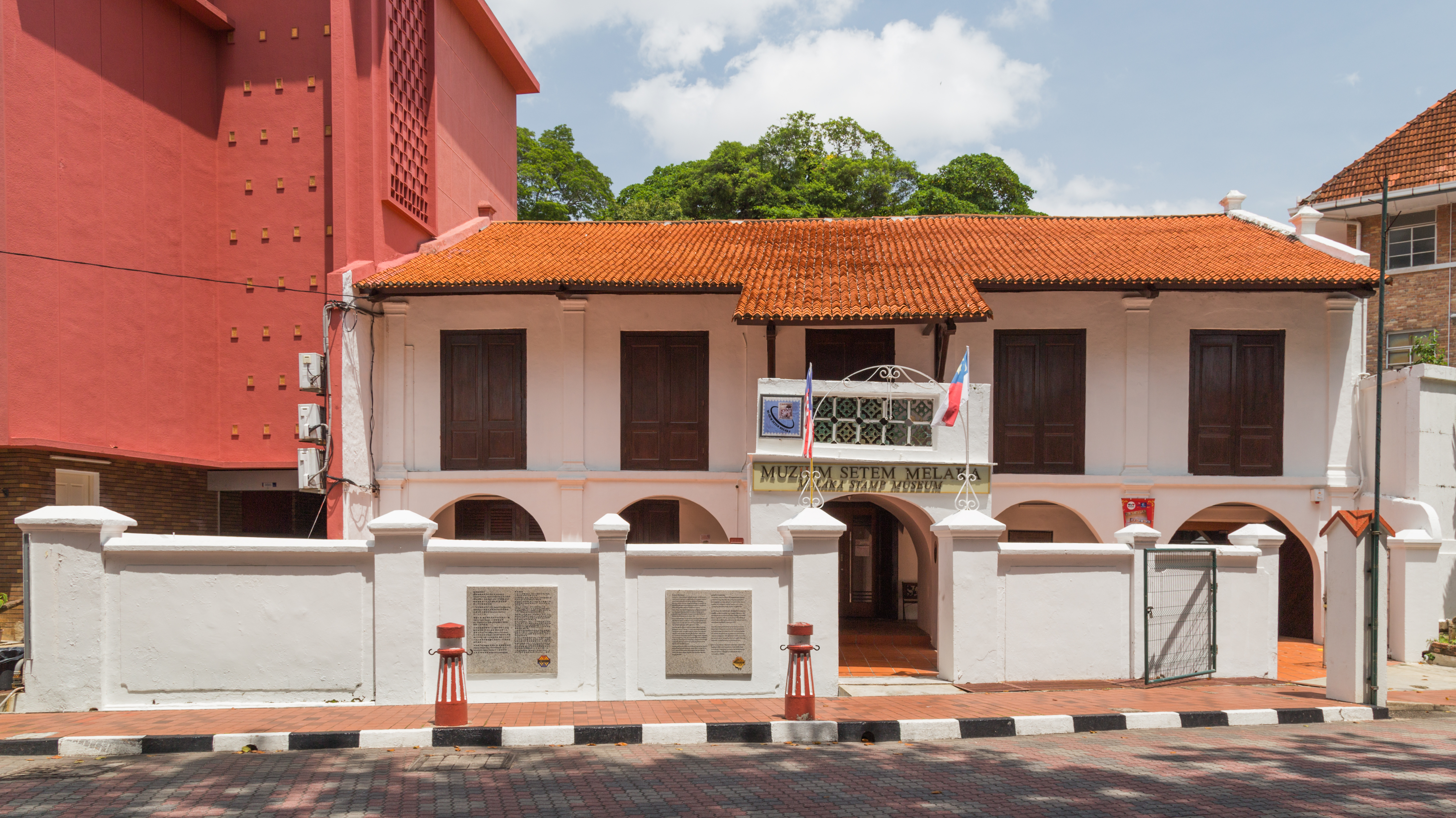 Malacca Stamp Museum. Malacca City, Malacca, Malaysia.